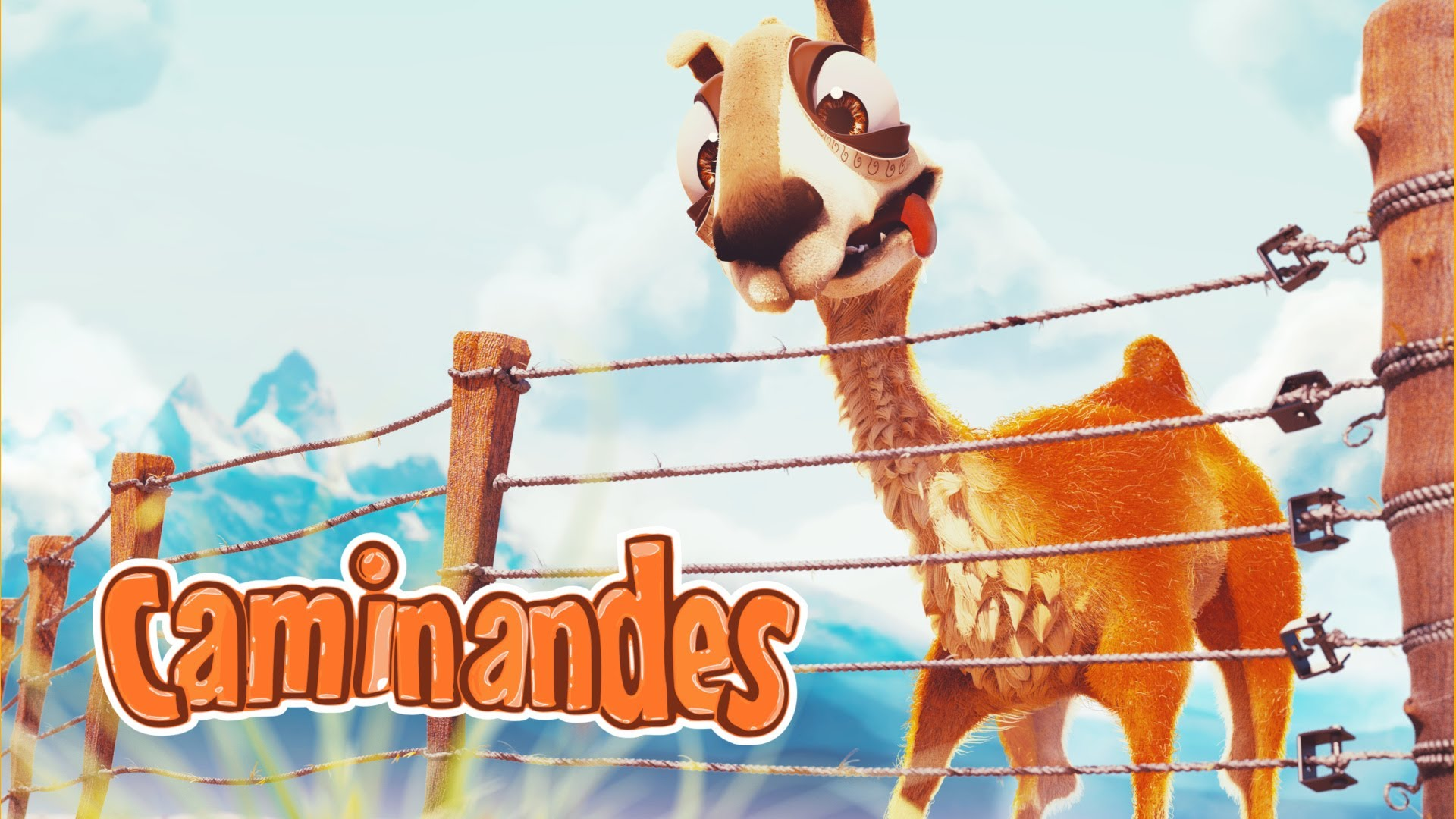 Cover thumbnail of the free/libre Blender 3D animated short series Caminandes in the second episode Gran Dillama.